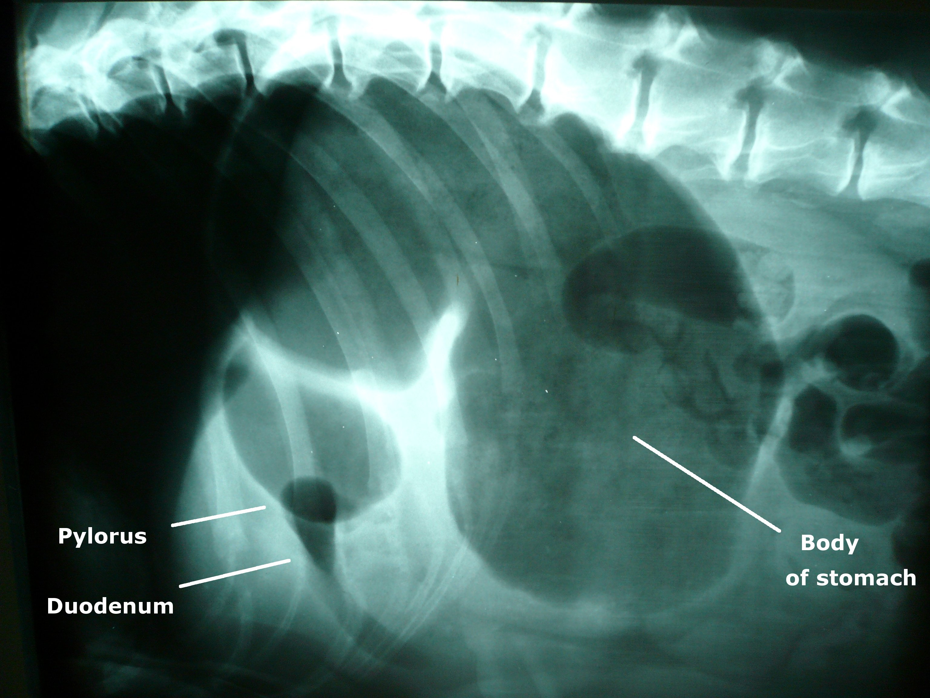 Photo of an x-ray showing gastric dilatation and volvulus in a large mixed-breed dog. The large dark area is the gas trapped in the stomach. The pylorus and duodenum are in an abnormal position cranial to the stomach and are separated by a fold in the stomach, creating a "double bubble" appearance.